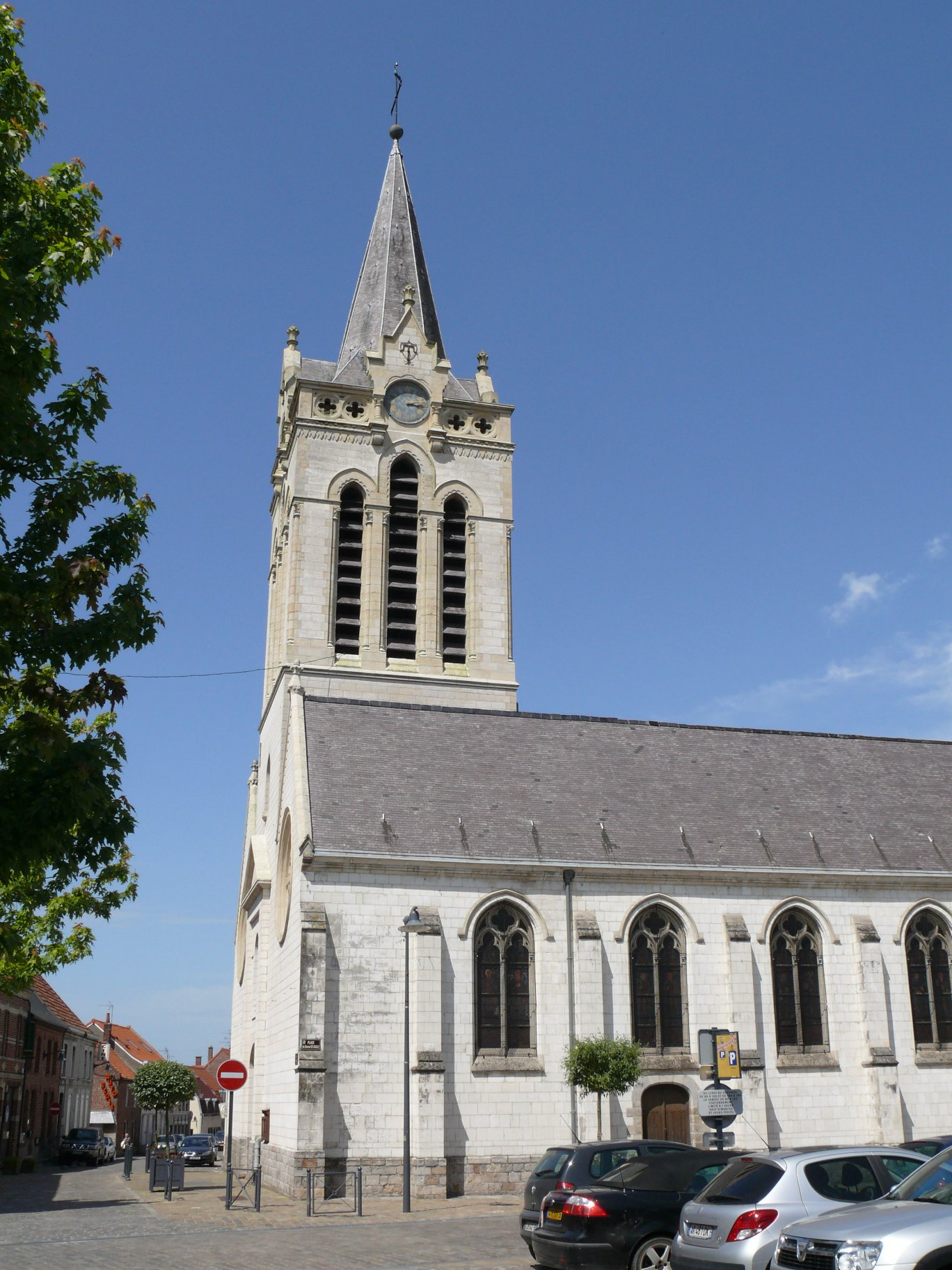 Saint-Martin's church of Templeuve (Nord, France).